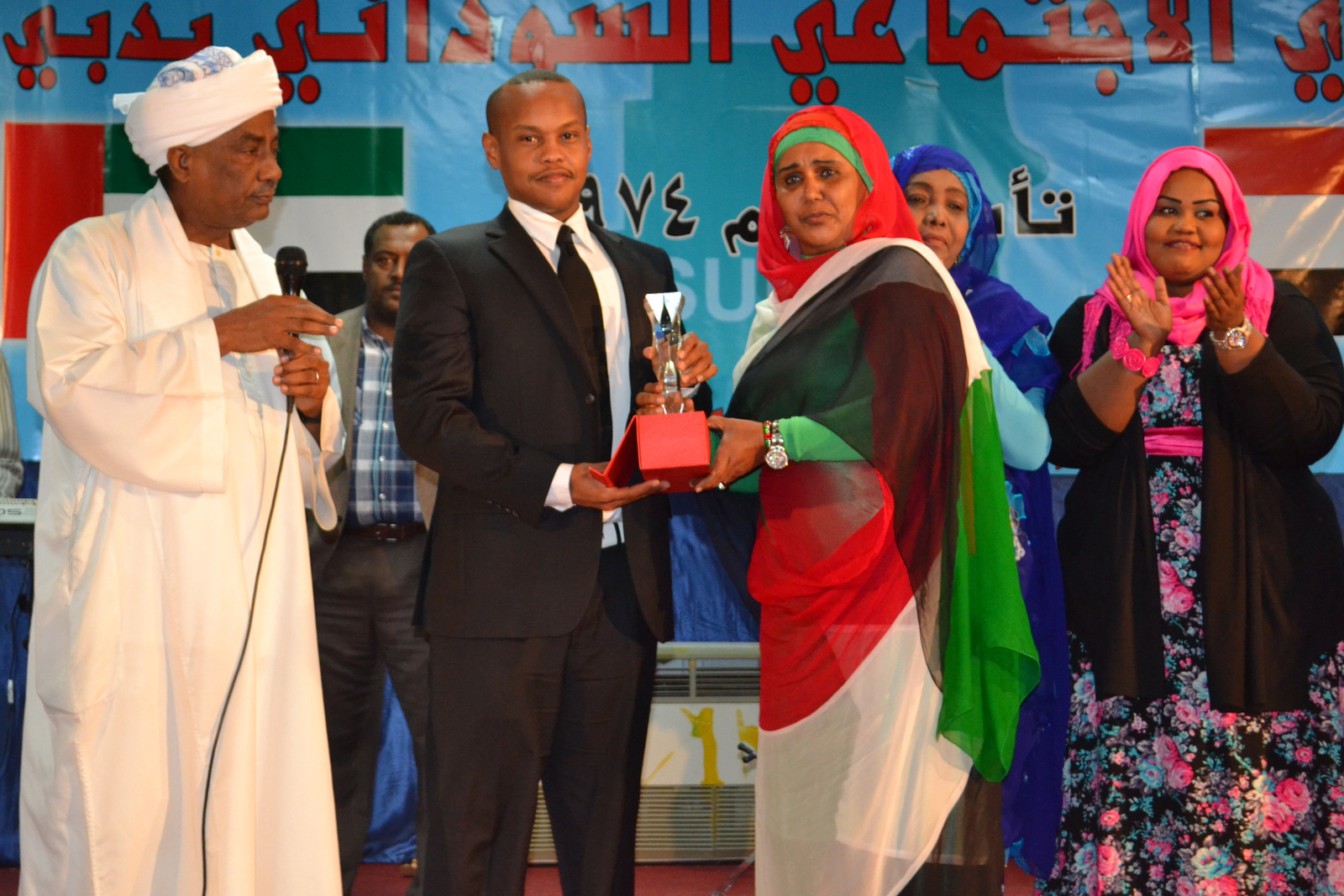 Honor from Al Mareekh sport club On celebrations of Sudan's 56th Independence Day- Sudanese Club in Dubai.2012